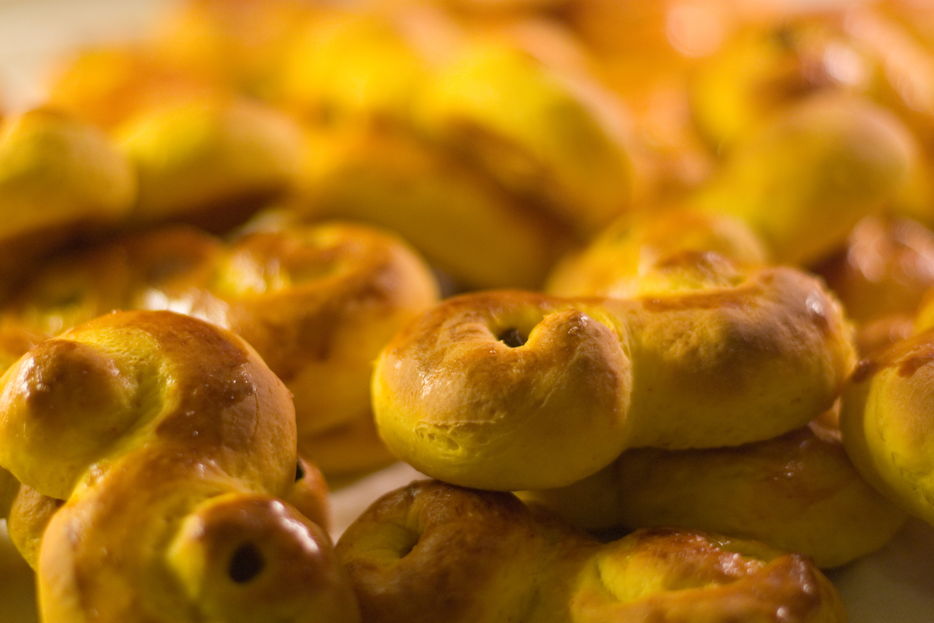 Baking Saffron buns